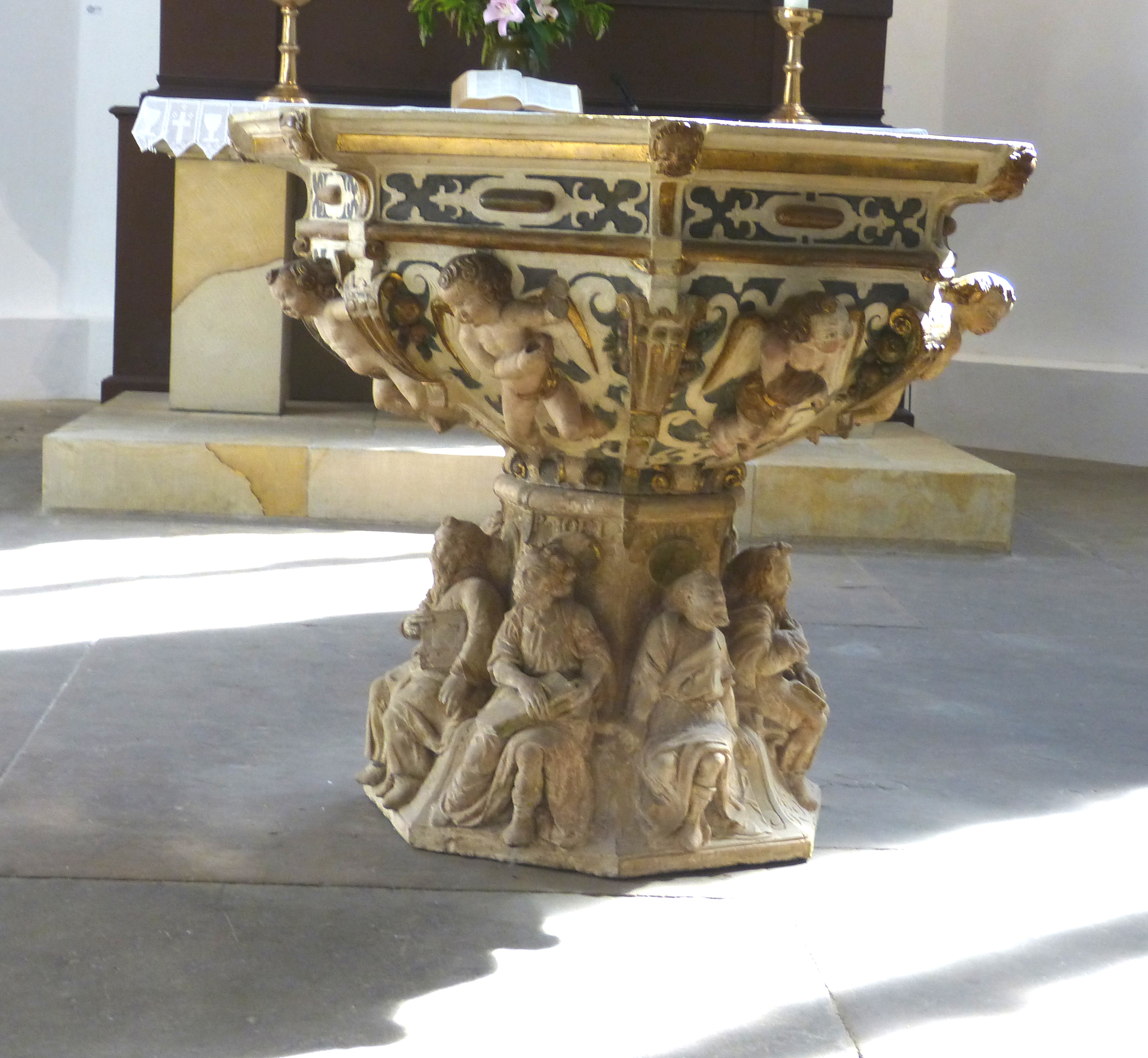 Erfurt ( Thuringia ). Merchants´ church - Renaissance baptismal font ( 1602 ) by Hans Fridemann the Elder.